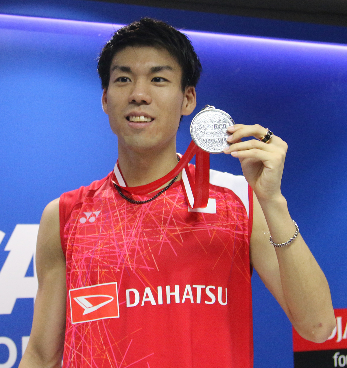 Kazumasa Sakai showing his silver medal after Indonesia Open 2017 final.